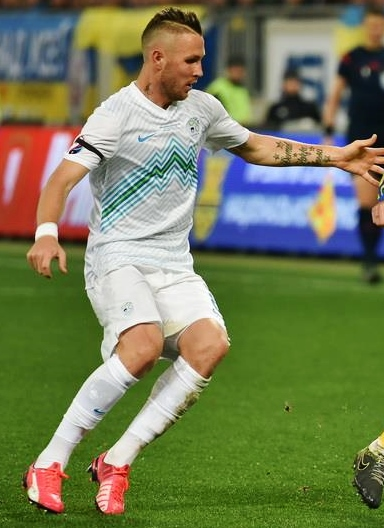 Jasmin Kurtić